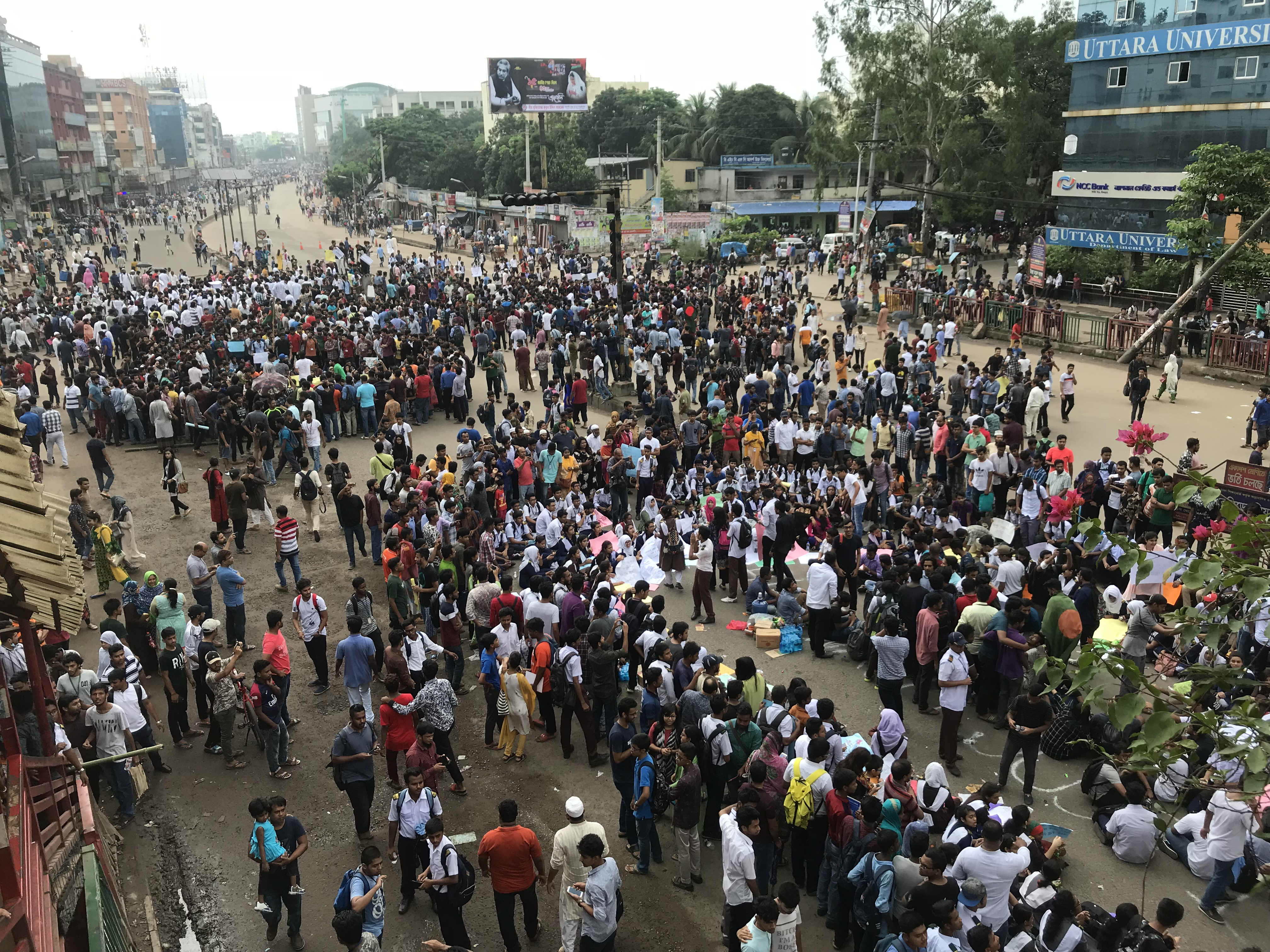 Students protesting for justice and safe roads at Dhaka, Bangladesh